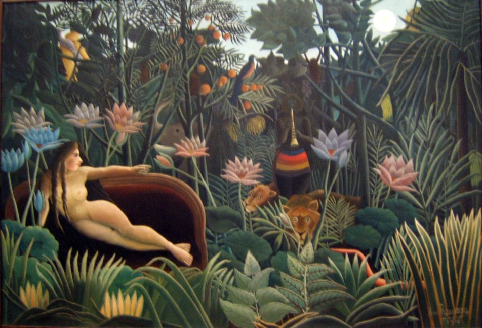 Henri Rousseau. The Dream. 1910. Oil on canvas, 6' 8 1/2" x 9' 9 1/2" (204.5 x 298.5 cm). Gift of Nelson A. Rockefeller Wikipedia Loves Art at the Museum of Modern Art This photo of item # 252.1954 at the Museum of Modern Art was contributed under the team name "Joey_B" as part of the Wikipedia Loves Art project in February 2009. Museum of Modern Art The original photograph on Flickr was taken by bishop.joann—please add a comment to the original Flickr page whenever a use has been made on Wikipedia or another project. Project galleries on Flickr: this institution, this team Henri Rousseau. The Dream. 1910. Oil on canvas, 6' 8 1/2" x 9' 9 1/2" (204.5 x 298.5 cm). Gift of Nelson A. Rockefeller Wikipedia Loves Art at the Museum of Modern Art This photo of item # 252.1954 at the Museum of Modern Art was contributed under the team name "Joey_B" as part of the Wikipedia Loves Art project in February 2009. Museum of Modern Art The original photograph on Flickr was taken by bishop.joann—please add a comment to the original Flickr page whenever a use has been made on Wikipedia or another project. Project galleries on Flickr: this institution, this team